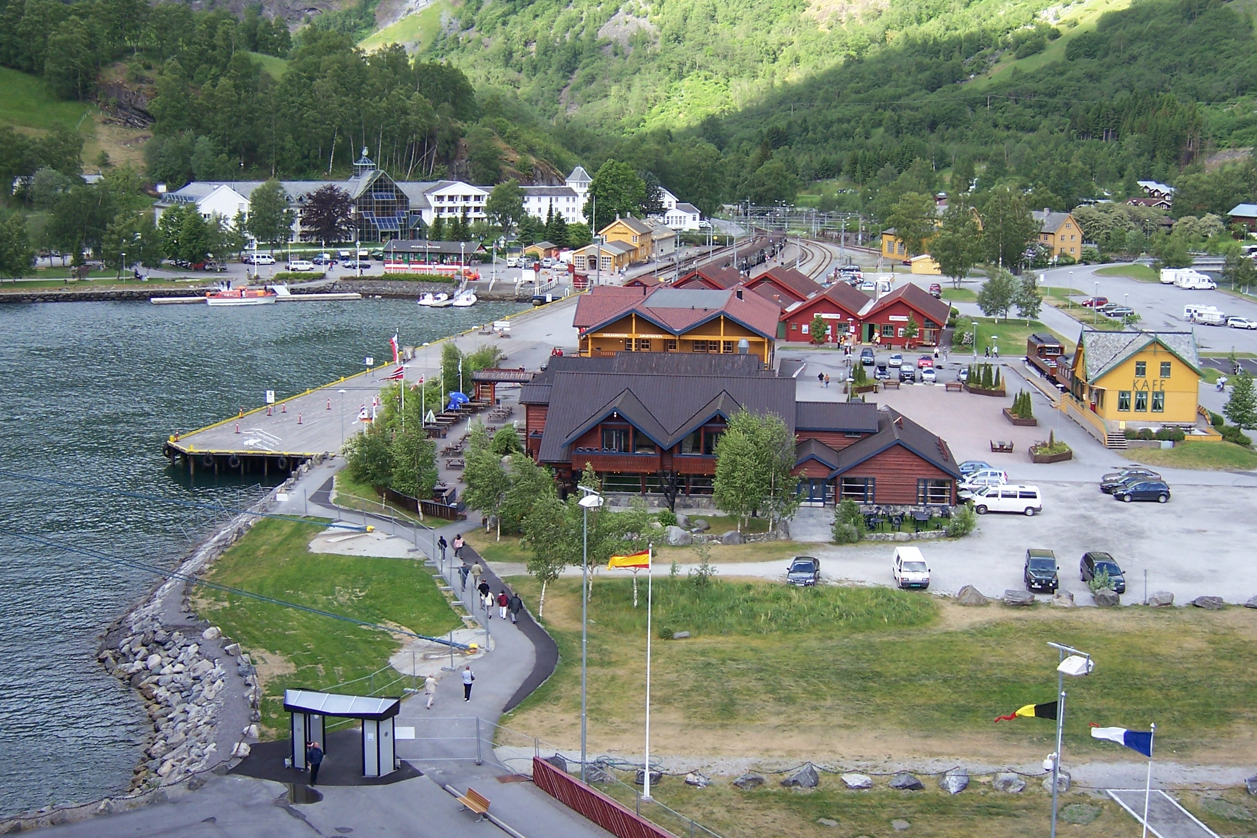 Flam Norway picture taken from P&O Arcadia cruise ship in 2006 by author John Beniston